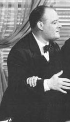 Arnoldo Chamot- actor argentino